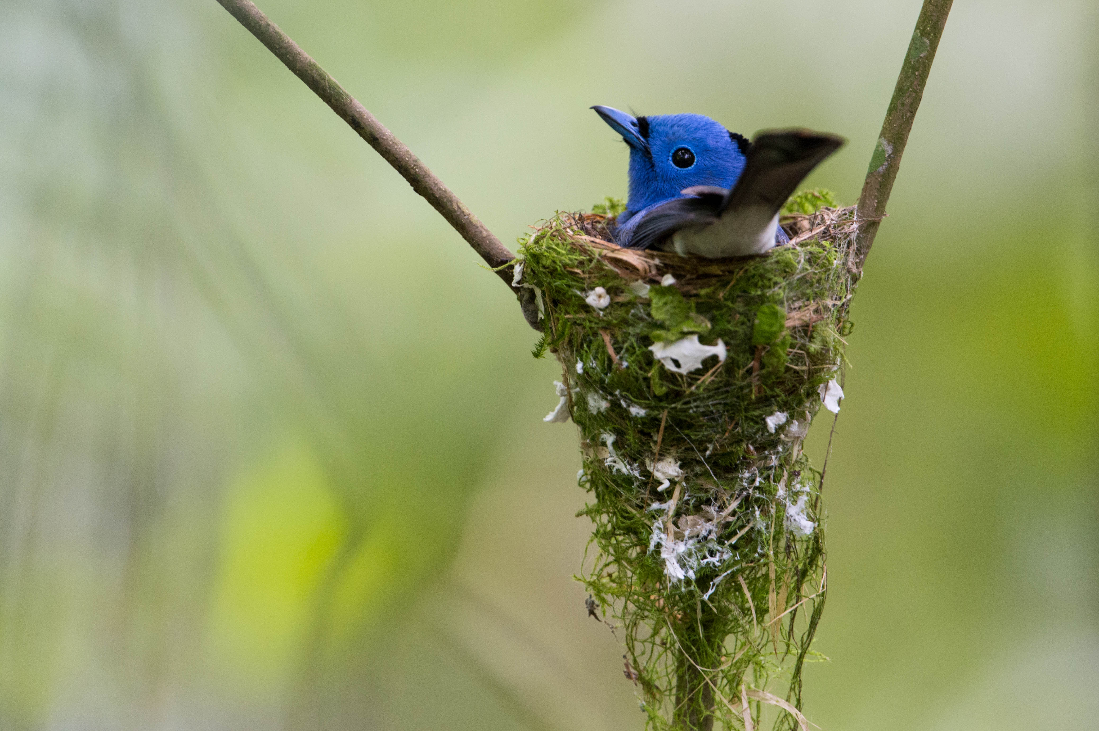 Black-naped Monarch (Hypothymis azurea) at Kaeng Krachan, Phetchaburi, Thailand